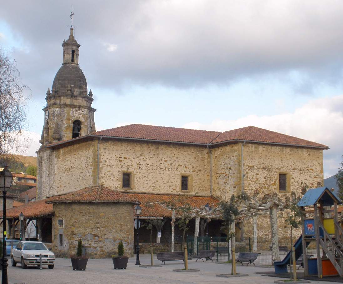 Iglesia de N. S. de la Asunción, Arrankudiaga